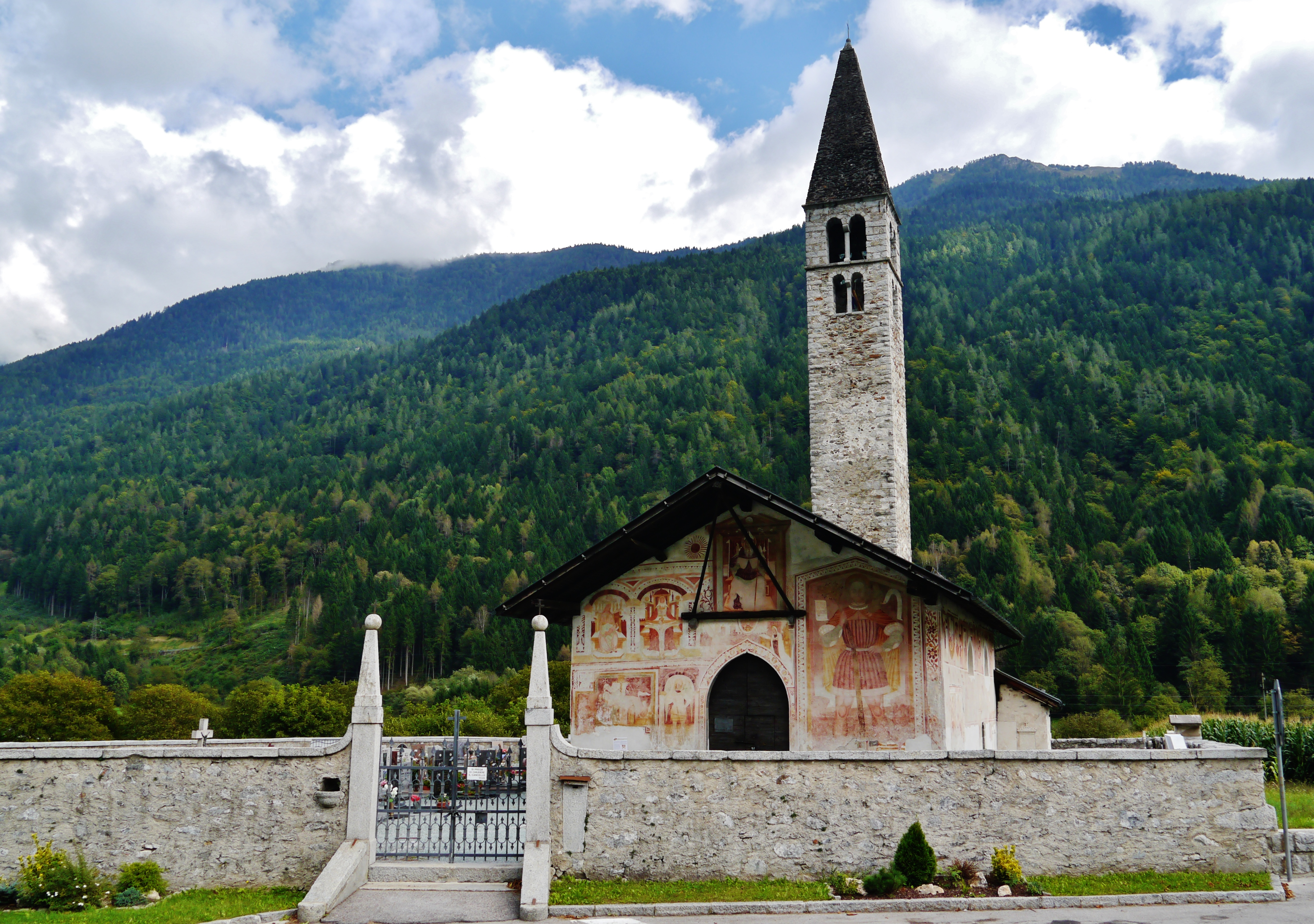 Church of the Holy Abbot Antonius, Peligo, Province of Trent (Trentino), Region of Trentino-Alto Adige/Südtirol, Italy